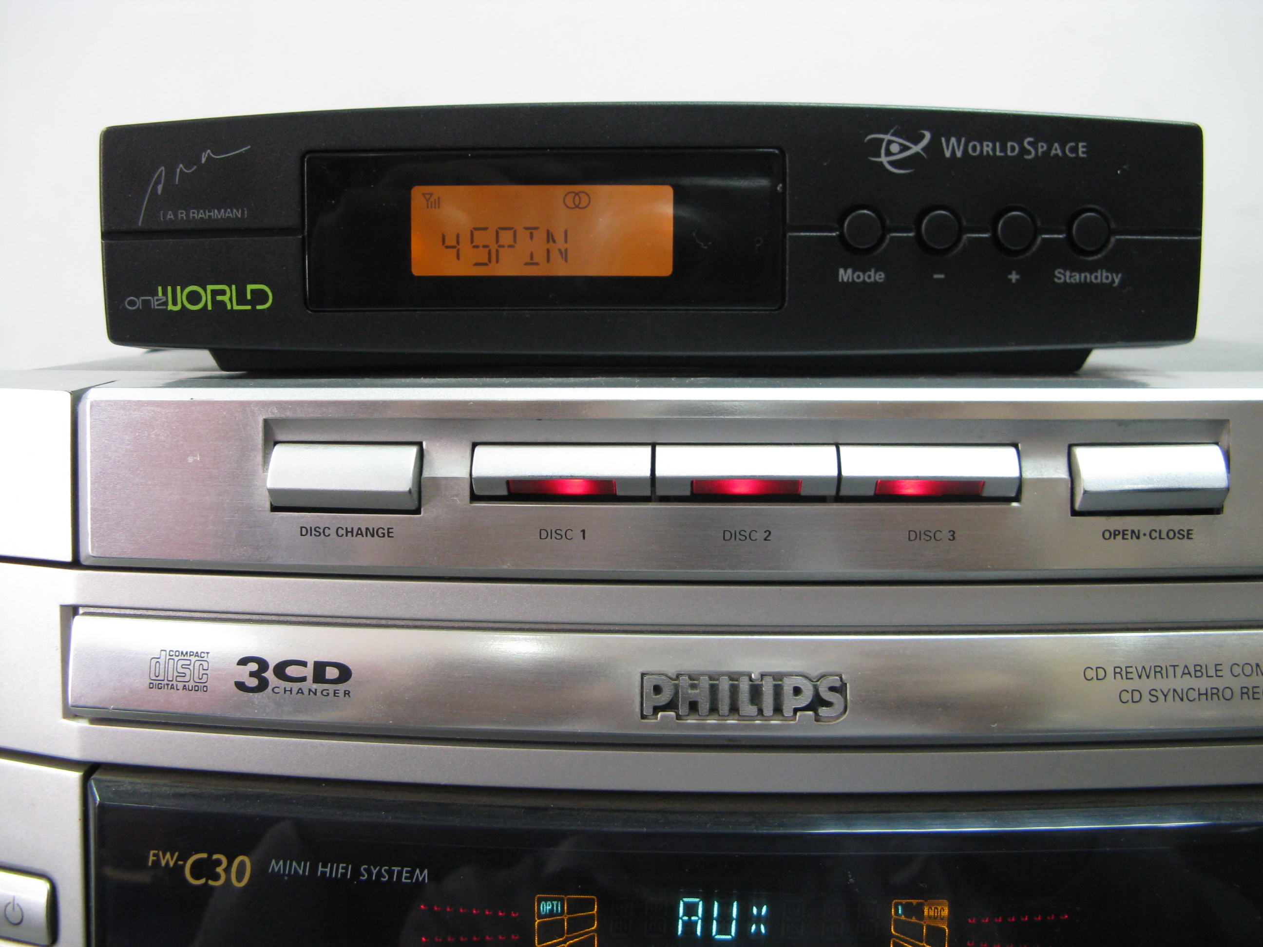 World Space One World Satellite Radio